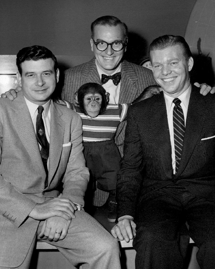 Photo of Frank Blair, Dave Garroway, J. Fred Muggs and Jack Lescoulie from the television program Today. The photo was issued to mark the beginning of the program's second year on the air.